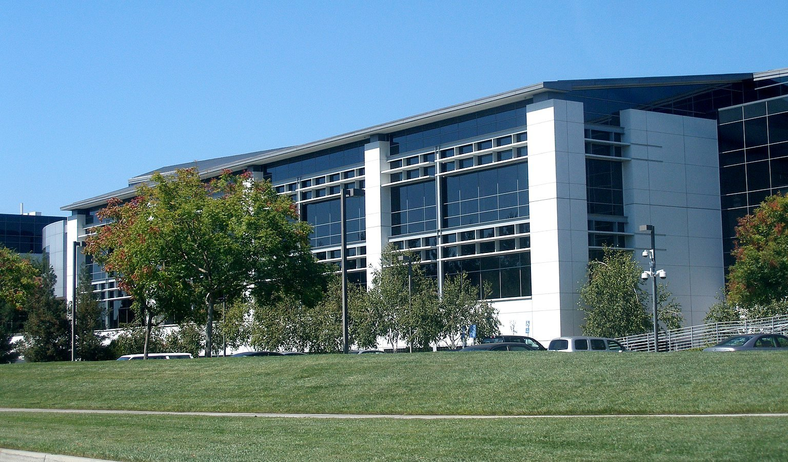 Another view of the south side of the Googleplex from Charleston Road.